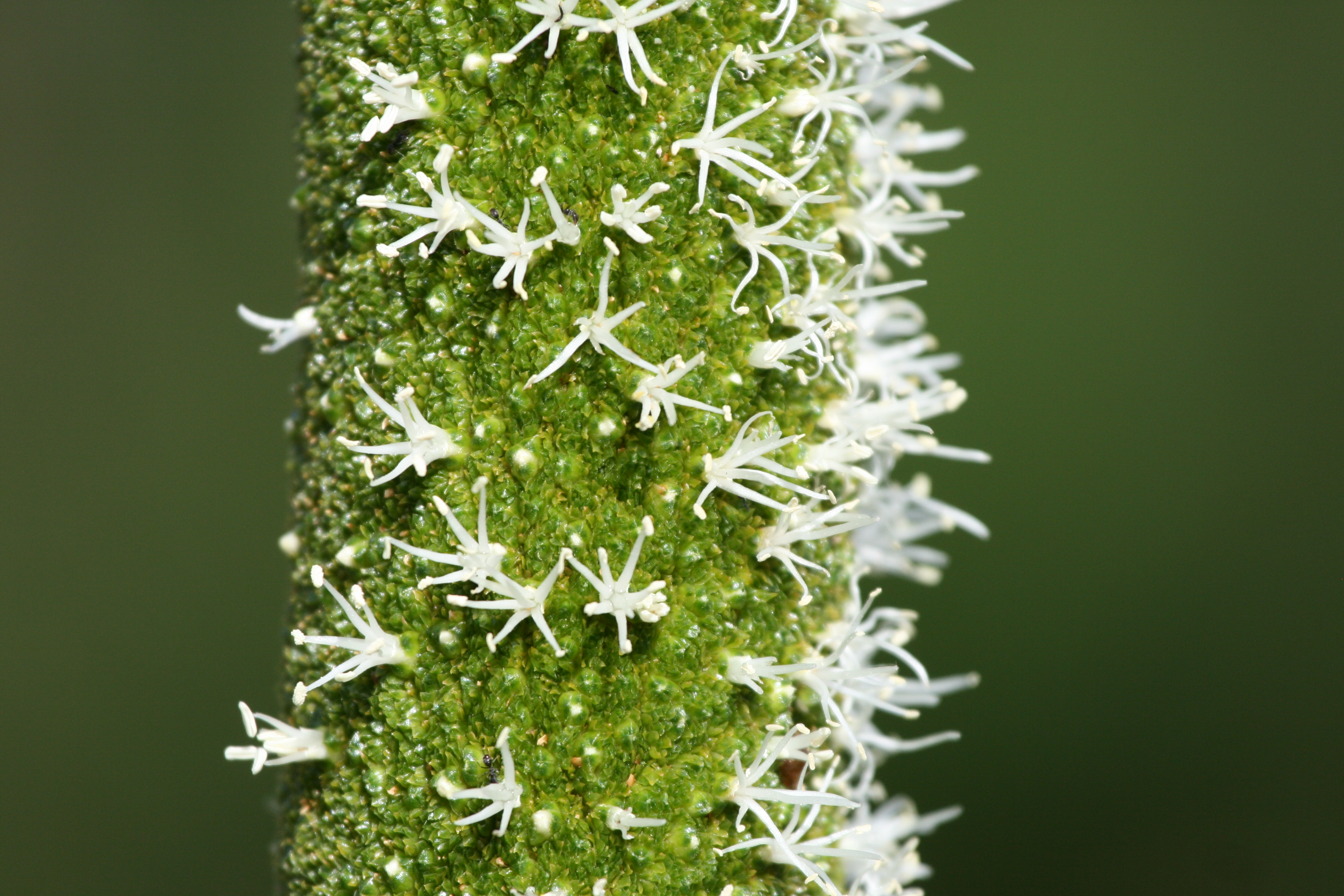 Mount Lofty Grass Tree (Xanthorrhoea quadrangulata) at Mount Brown, Western Australia. Photographed on 26 October 2008